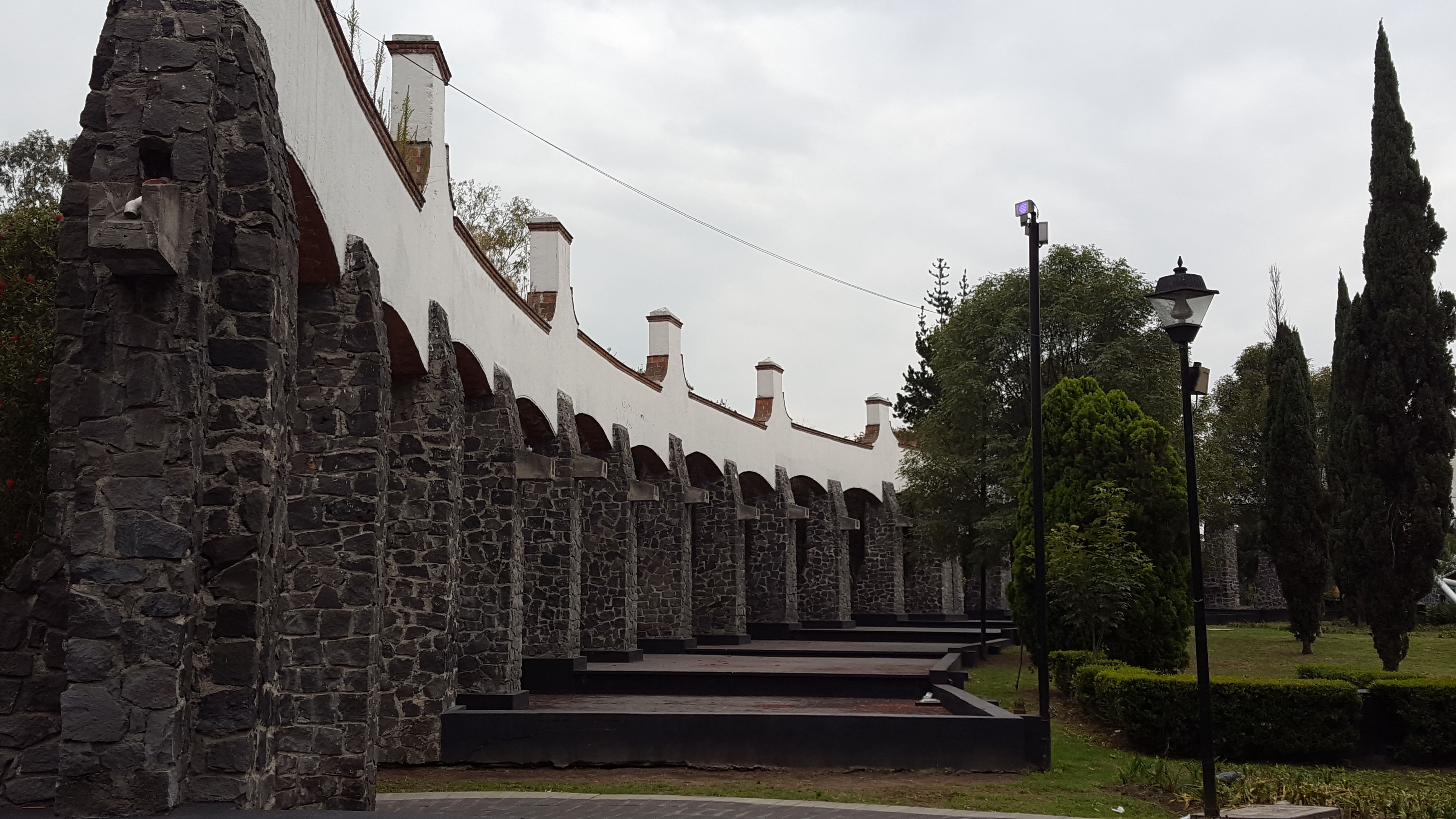 Aqueducts of the Alameda del sur.